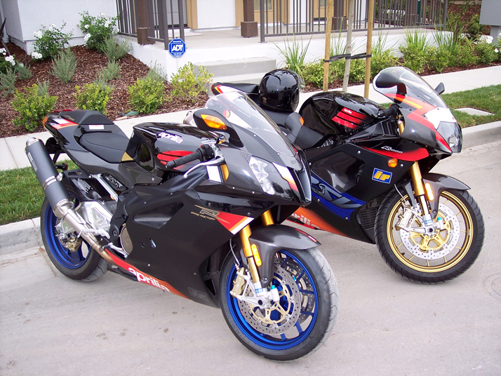 Aprilia RSV Mille Factory, (2004 on left, 2003 on right)